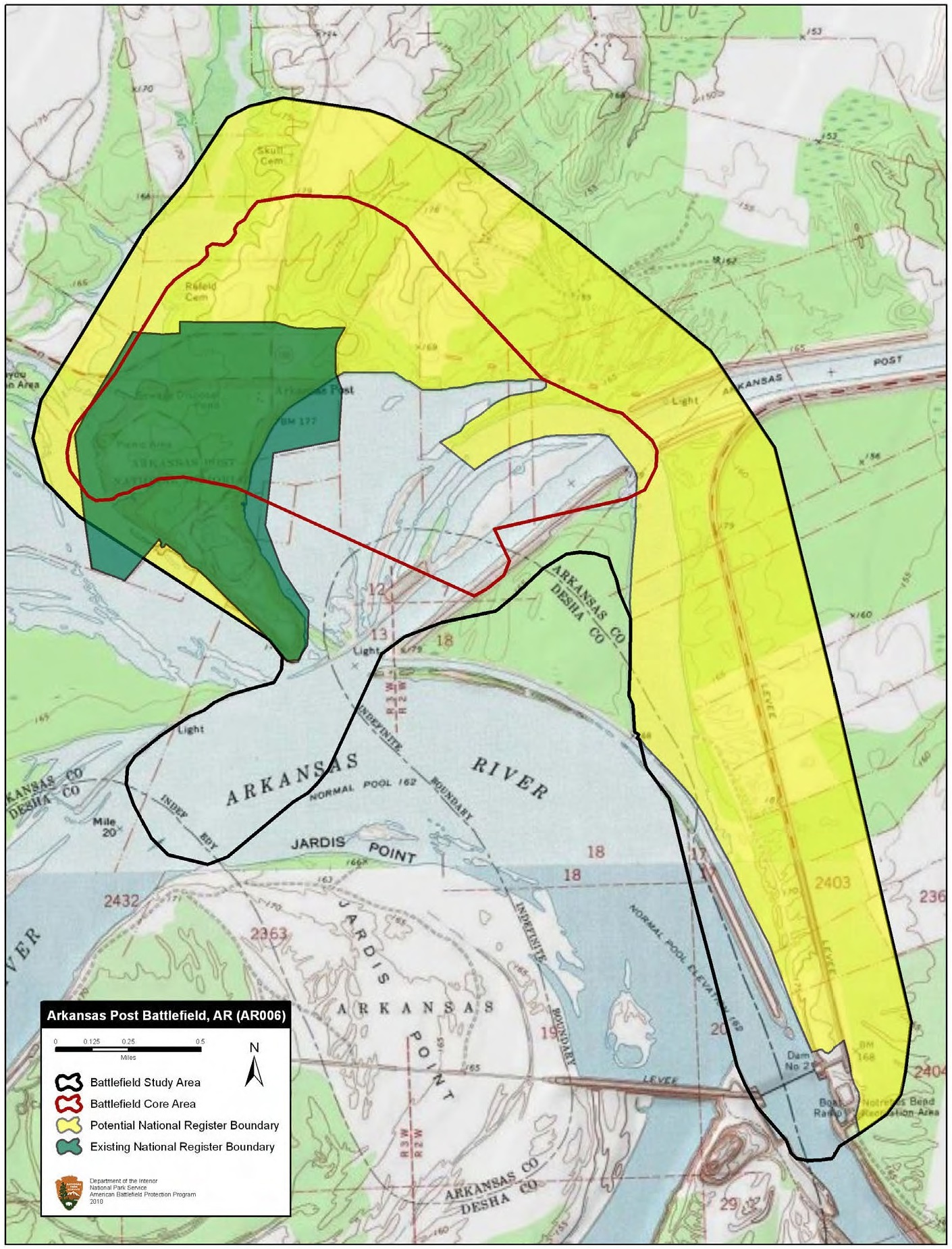 Map of battlefield core and study areas. The 1993 Study Area included lands associated with the Federal flotilla’s movements toward Notrebes Landing prior to January 9. That land was excised, reducing the Study Area to only land associated with the events of January 9-11, 1863. The Study Area was further revised to reflect the historic bend in the Arkansas River. The ABPP reduced the Core Area to identify more accurately the area of the land engagement, the location of the gunboat assault, and the placement of the Federal batteries built across the Arkansas River from Fort Hindman.